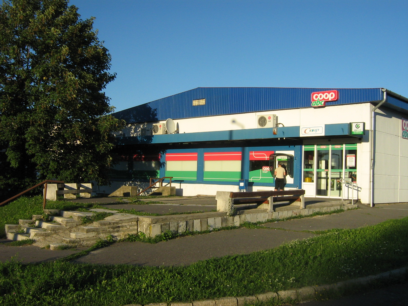 Supermarket in Komlóstető